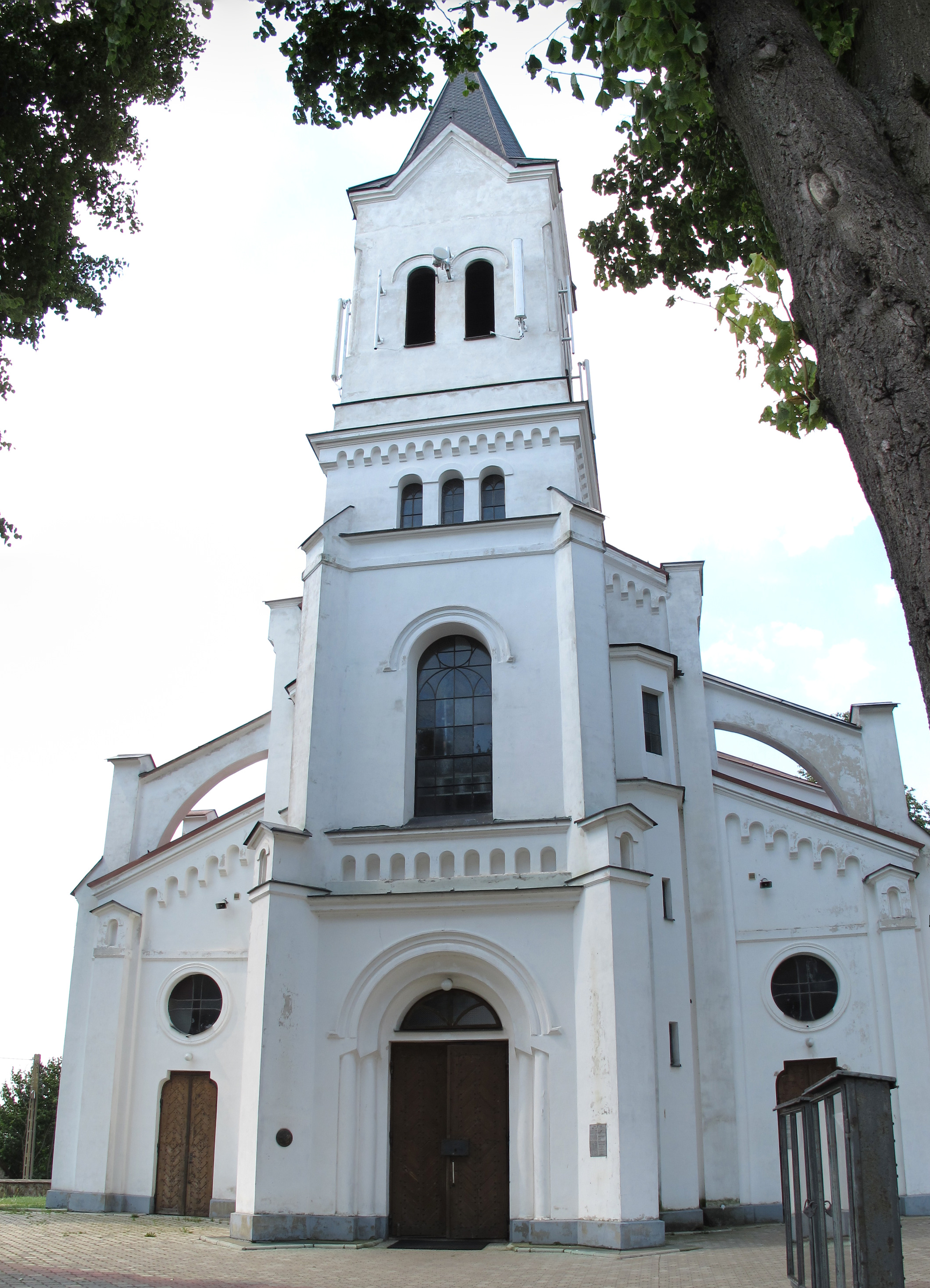 Collegiate Church of the Nativity of the Blessed Virgin Mary in Krypno, gmina Krypno, podlaskie, Poland This image was created with Hugin.